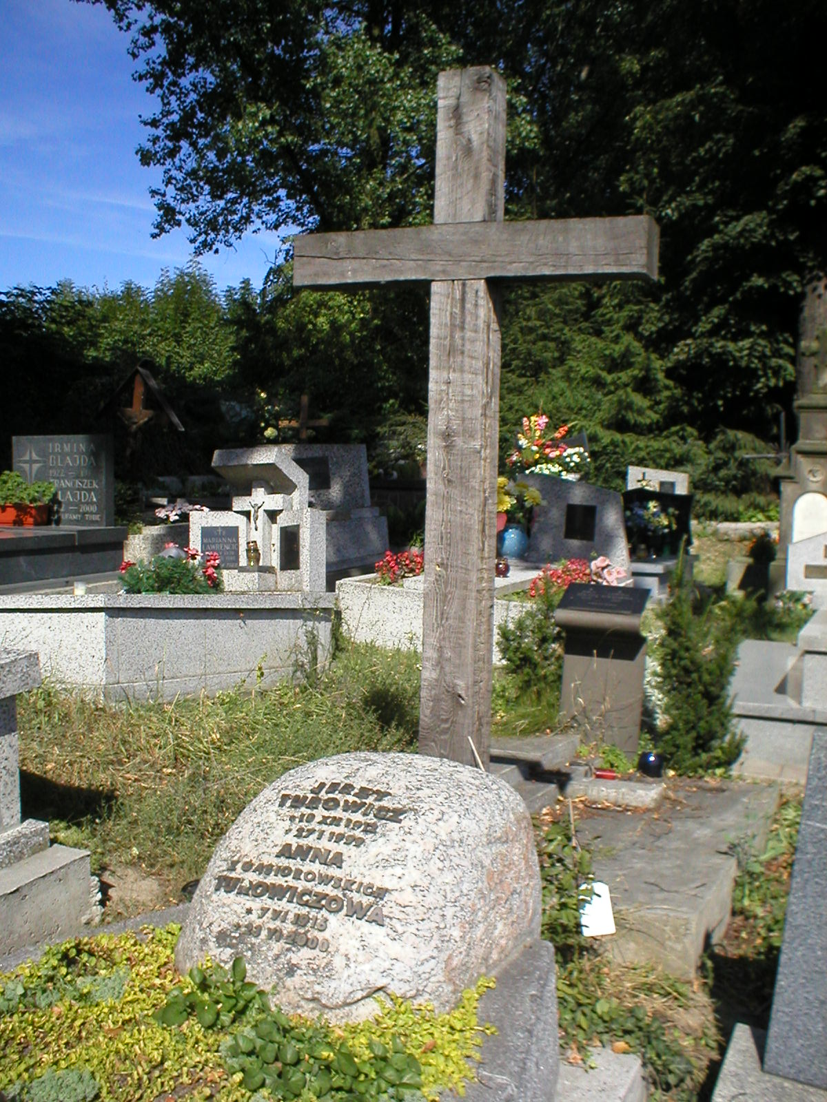 Grave of Jerzy Turowicz on Tyniec cemetery in Kraków, Poland